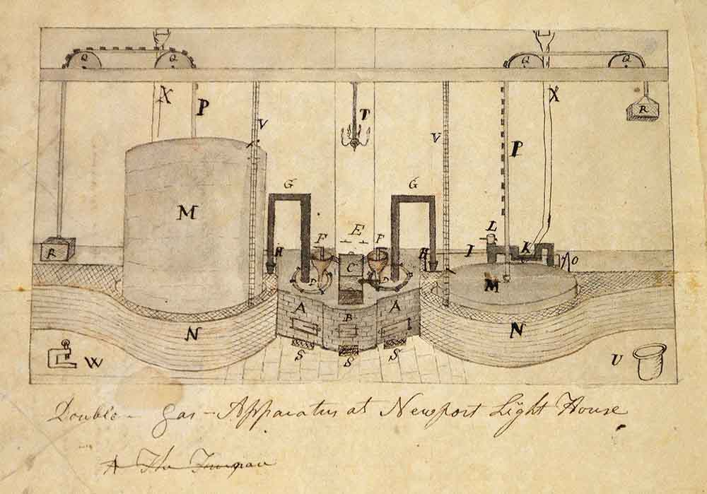 Diagram of Double gas apparatus at Newport Light House, from David Melville’s 1817-1818 Meteorological Diary - Newport Historical Society - Newport, Rhode Island, USA.